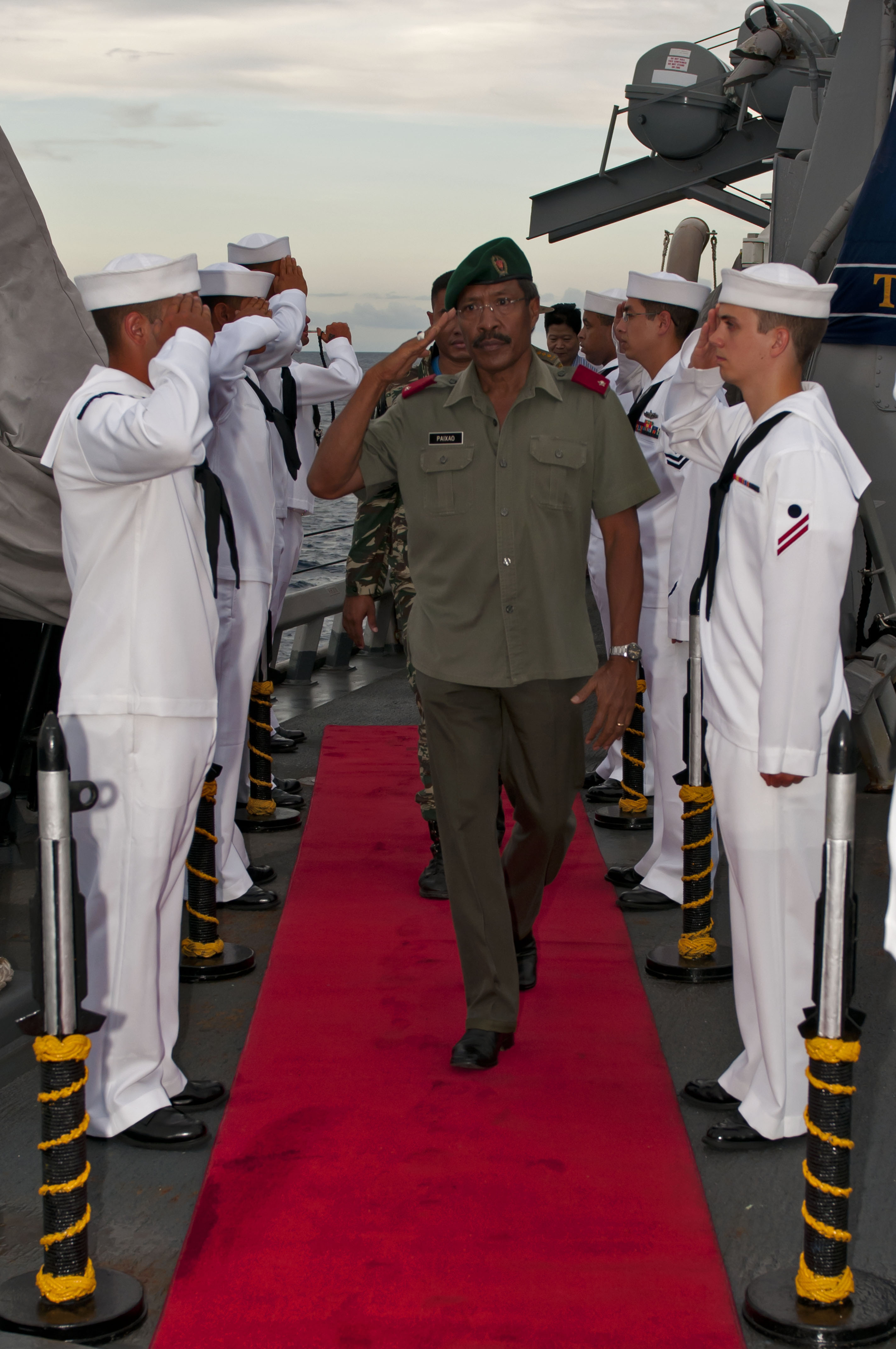 DILI, Timor-Leste (Nov. 27, 2011) Sideboys render honors to Brig. Gen. Filomeno da Paixao de Jesus, Deputy Chief of Defense Force for Timor-Leste, aboard the Arleigh Burke-class guided-missile destroyer USS Stethem (DDG 63) for a reception held on the flight deck. Stethem is part of the Essex Expeditionary Strike Group. (U.S. Navy photo by Mass Communication Specialist 3rd Class Matthew R. Cole/Released)